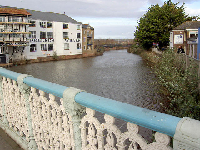 Dellers Wharf Taunton and the River Tone